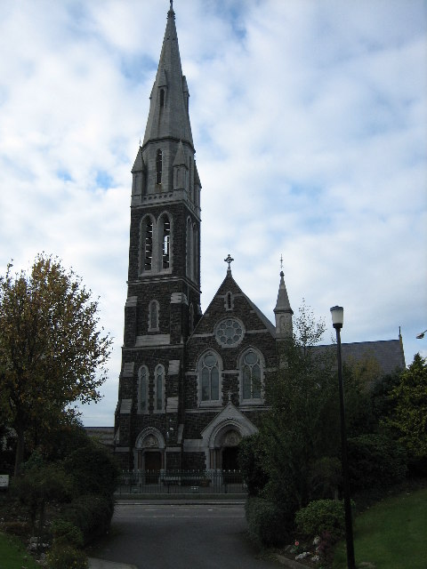 St Peter's Church, Lurgan. Work started in 1830 shortly after Catholic emancipation: the building has subsequently benn remodelled and enlarged.